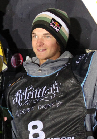 Seppe Smits after winning third place in London.